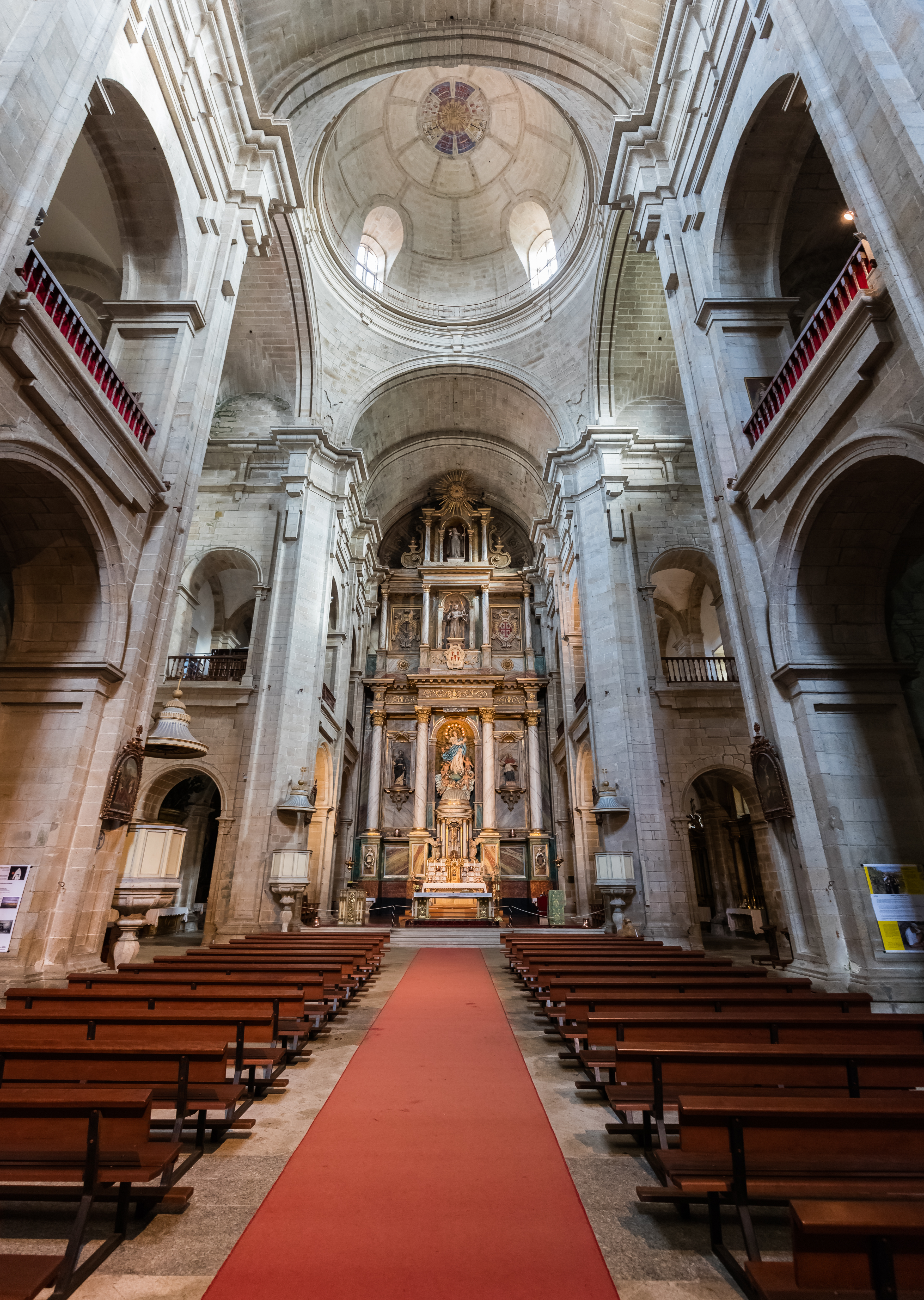 St Franciscus Monastery, Santiago de Compostela, Spain